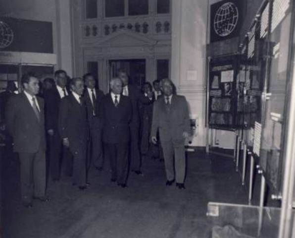 Kenan Evren at MIRSR